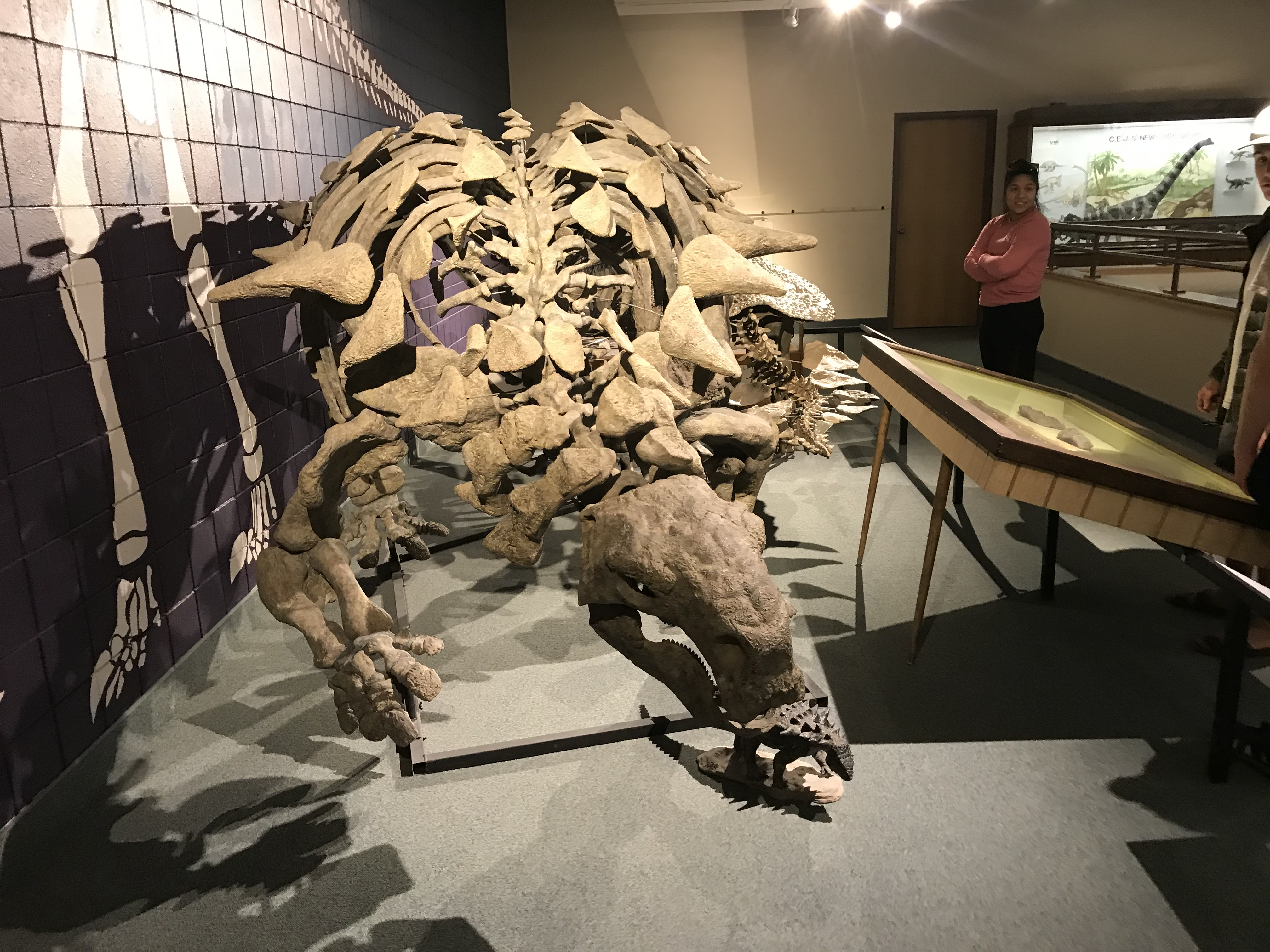 Dinosaur skeleton.